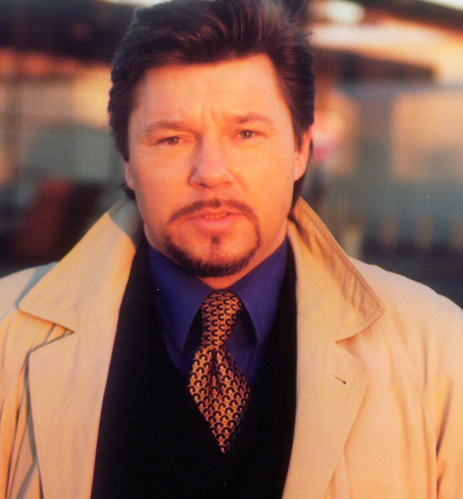 M. Drawe in New York City in 2012